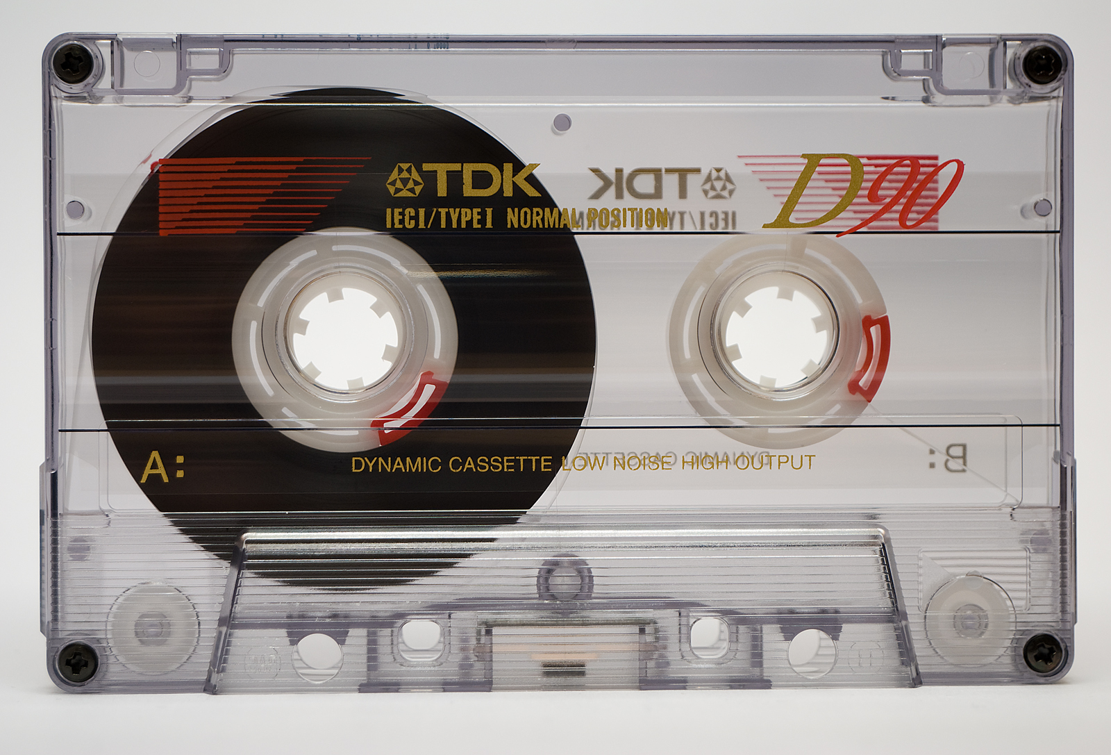 Front of TDK D90 audio cassette.